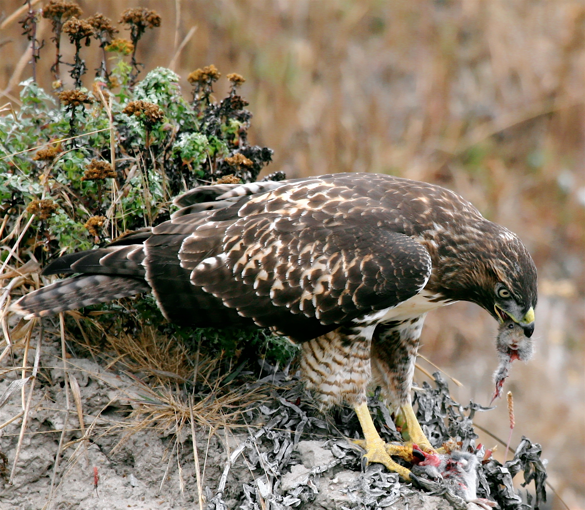 A juvenile Red-tailed Hawk Buteo jamaicensis eating its prey (California Meadow Vole Microtus californicus); seaside bluffs of Half Moon Bay, California.[1].